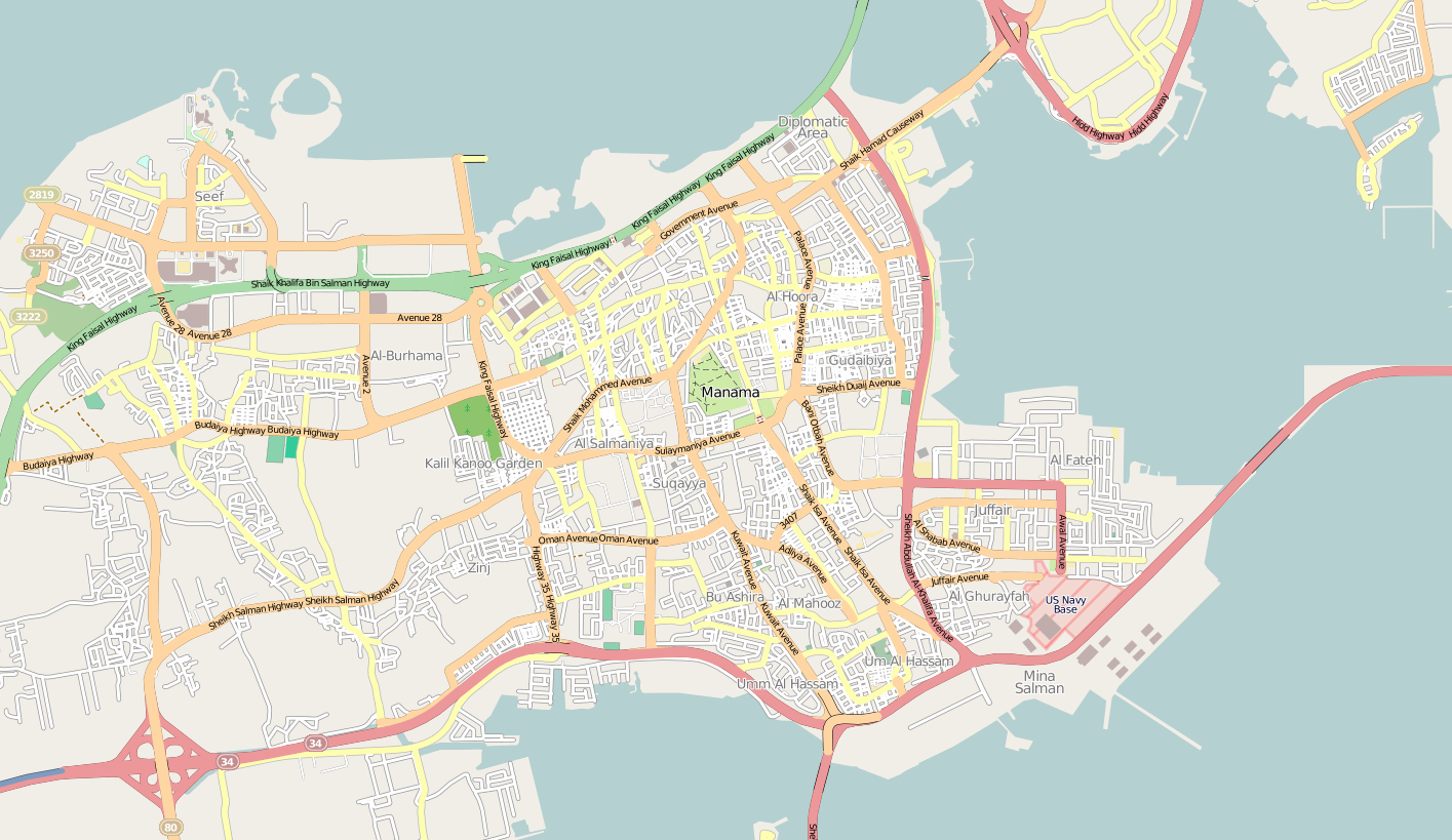 Location map of Manama, Bahrain. Geographic limits of the map: N: 26.253° N S: 26.19° N W: 50.521° E E: 50.643° E